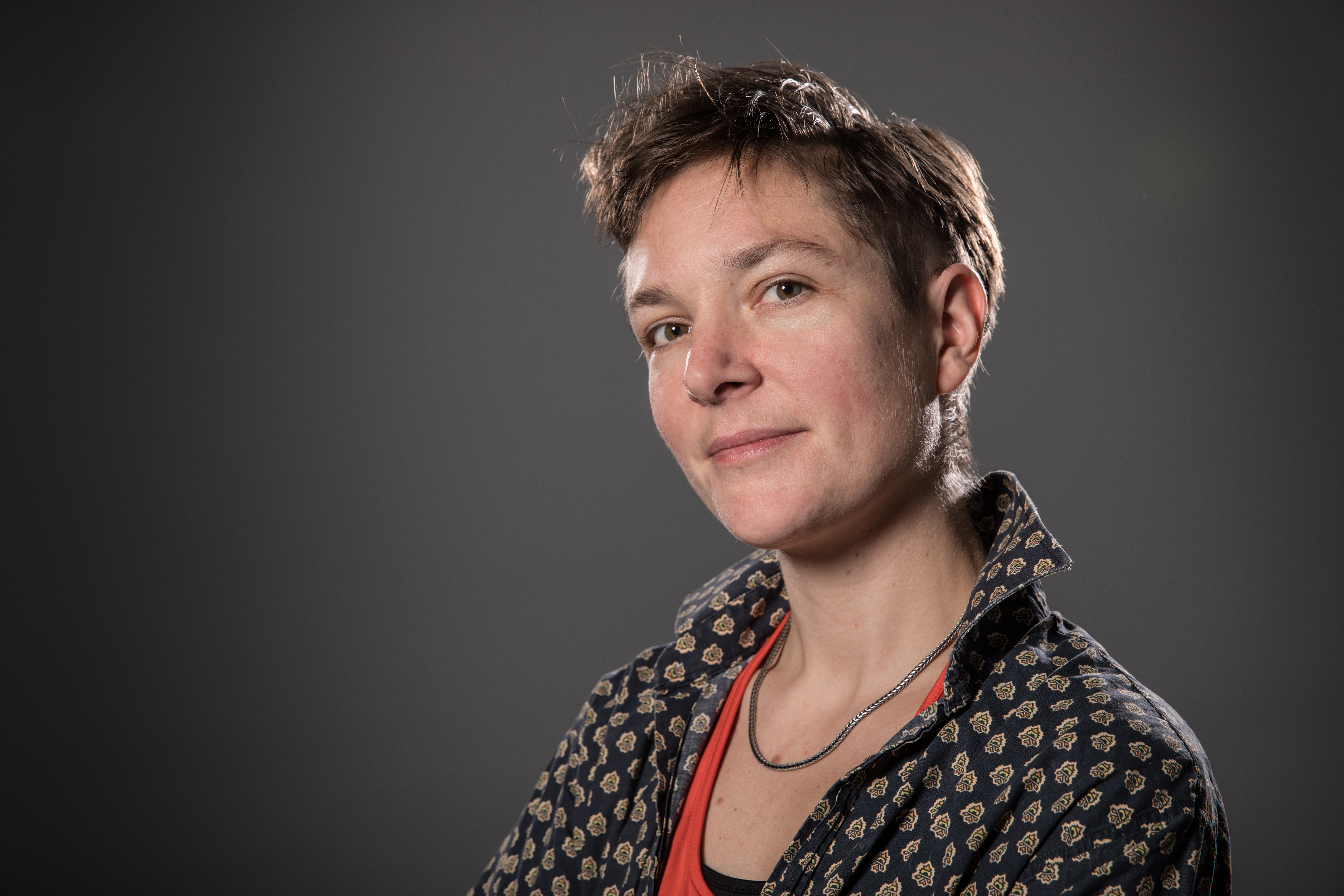 Film director Caroline Cuénod photographed on 14th January 2018